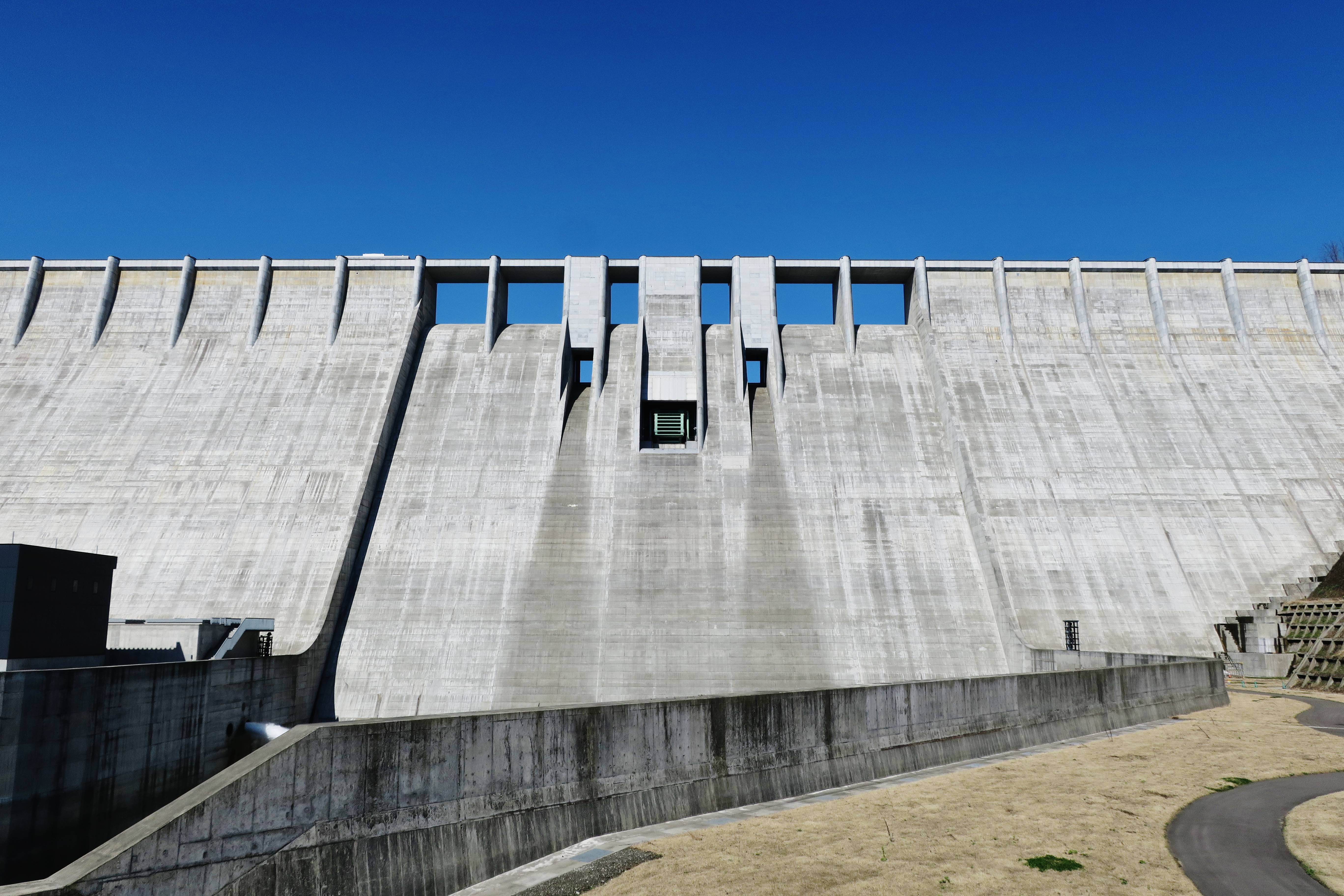 Tsugaru Dam (Nishimeya, Aomori).